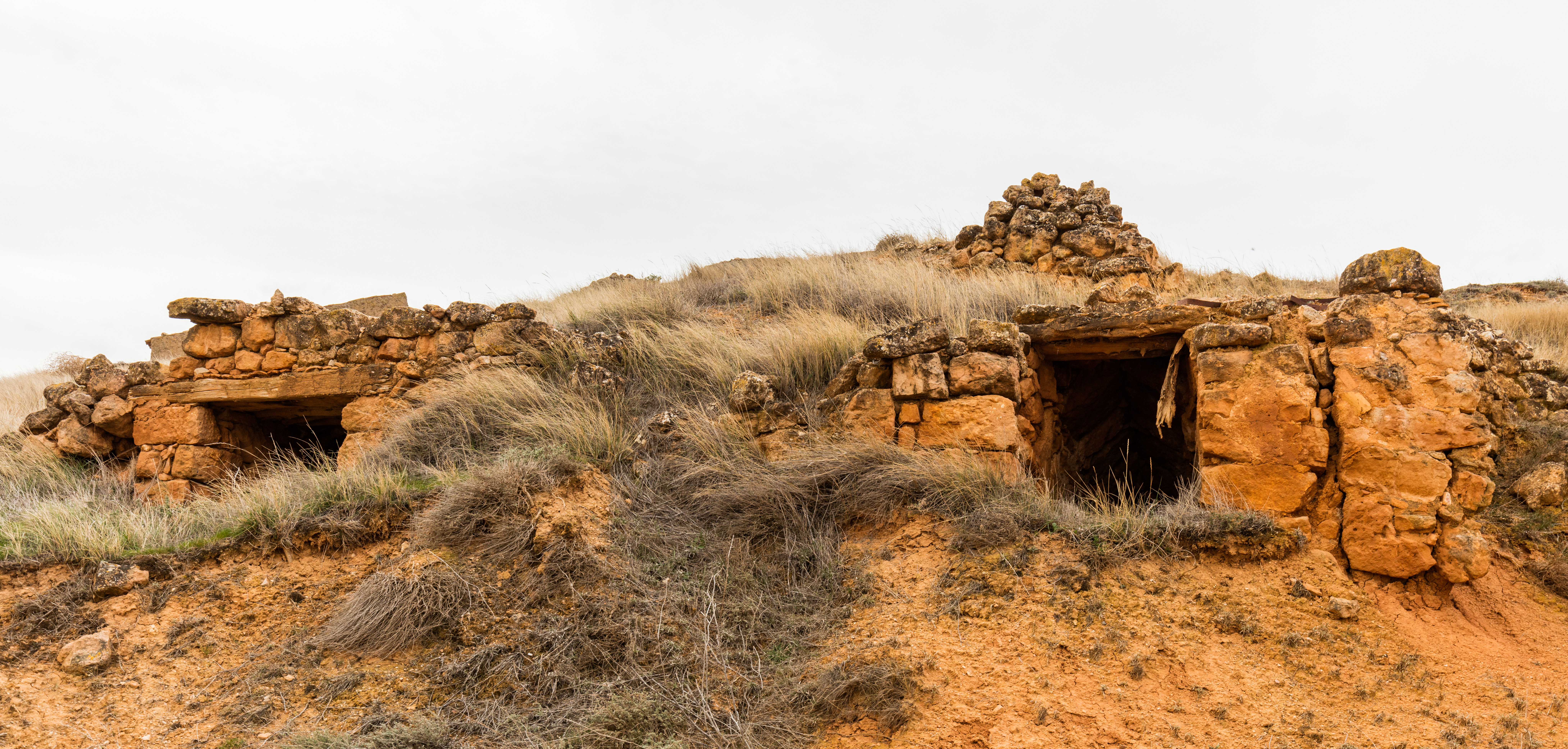 Cellar, Torrehermosa, Zaragoza, Spain